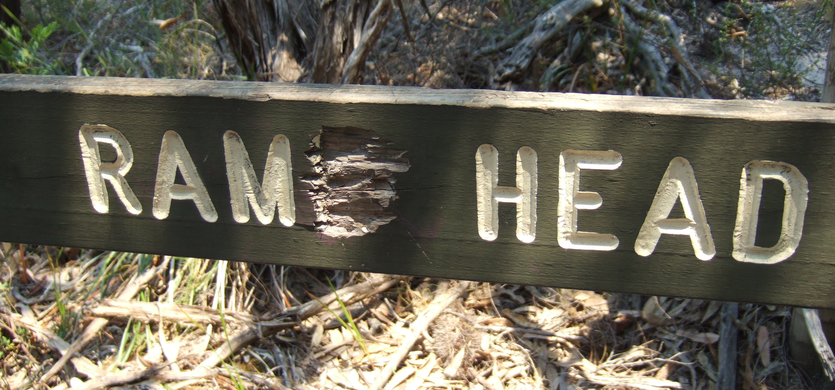 A sign reflecting local controversy over the spelling of Rame Head. By me.